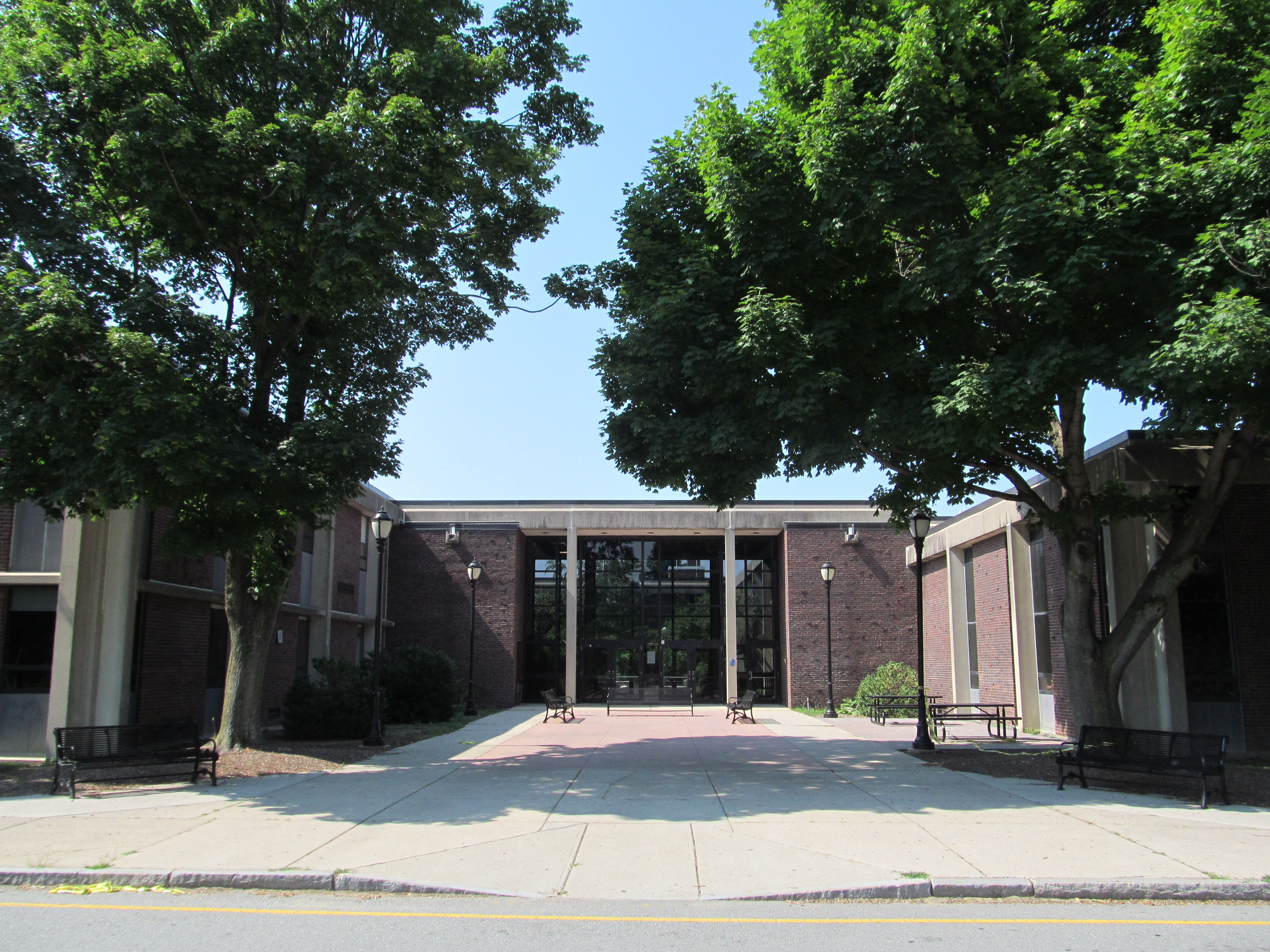 Belmont High School, Belmont Massachusetts